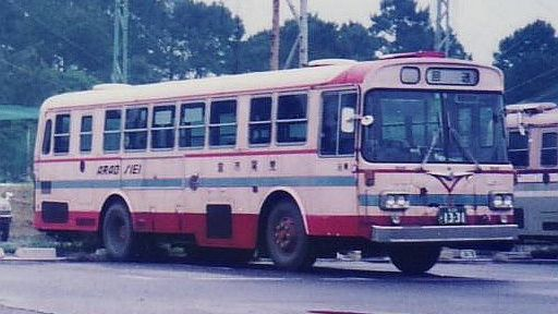 Company:Arao City Transportation Bureau Use:transit bus Car license:熊22 か 1331 Chassis manufacturer:Nissan Diesel Coachbuilder:Nishinippon Shatai Kogyo Location:in Arao City, Kumamoto, Japan Scanned from negative color print